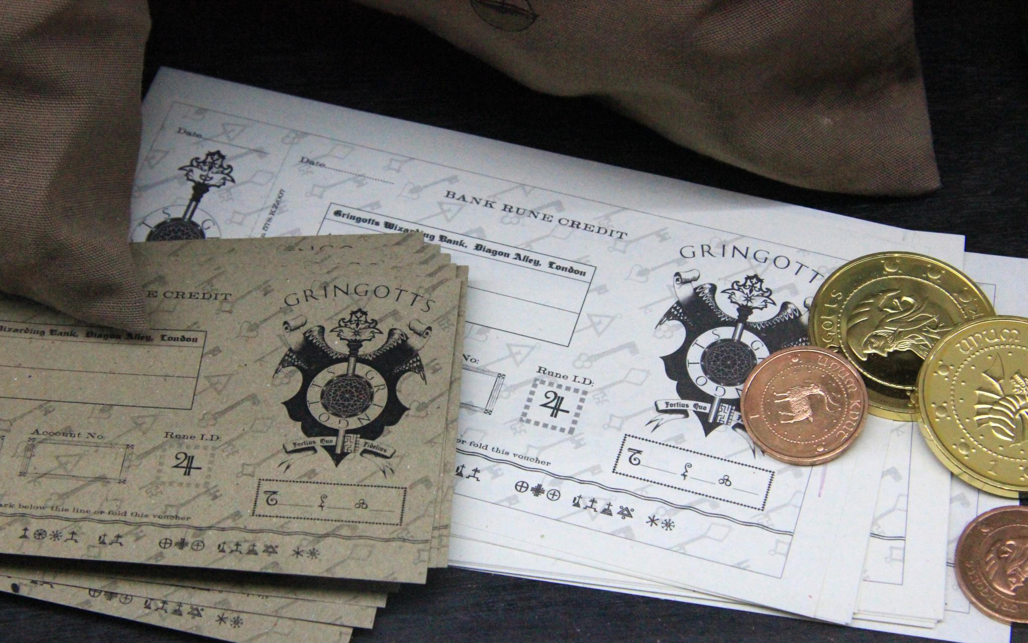 Warner Bros. Studio Tour London: The Making of Harry Potter.